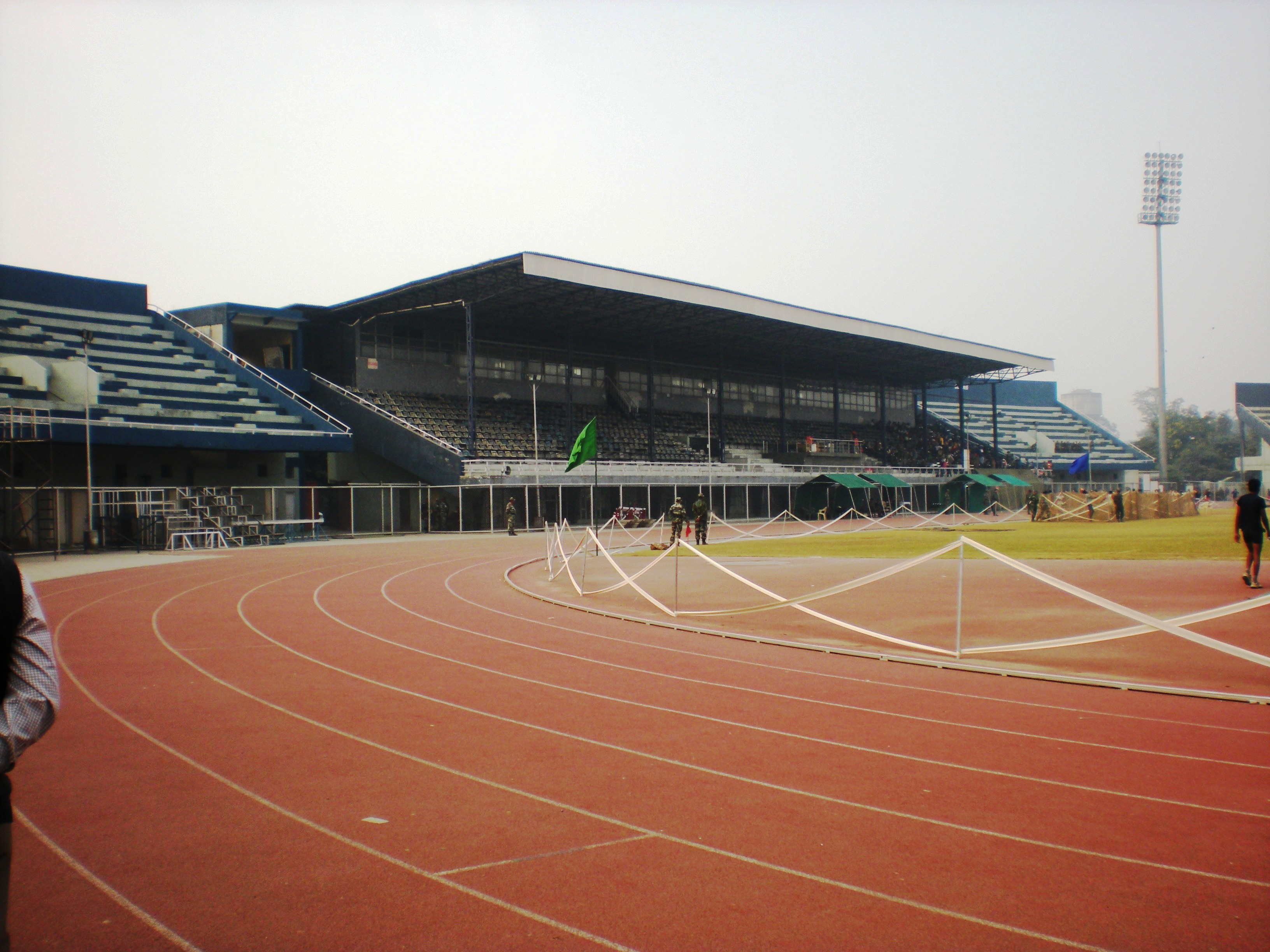 GURU NANAK STADIUM, LUDHIANA